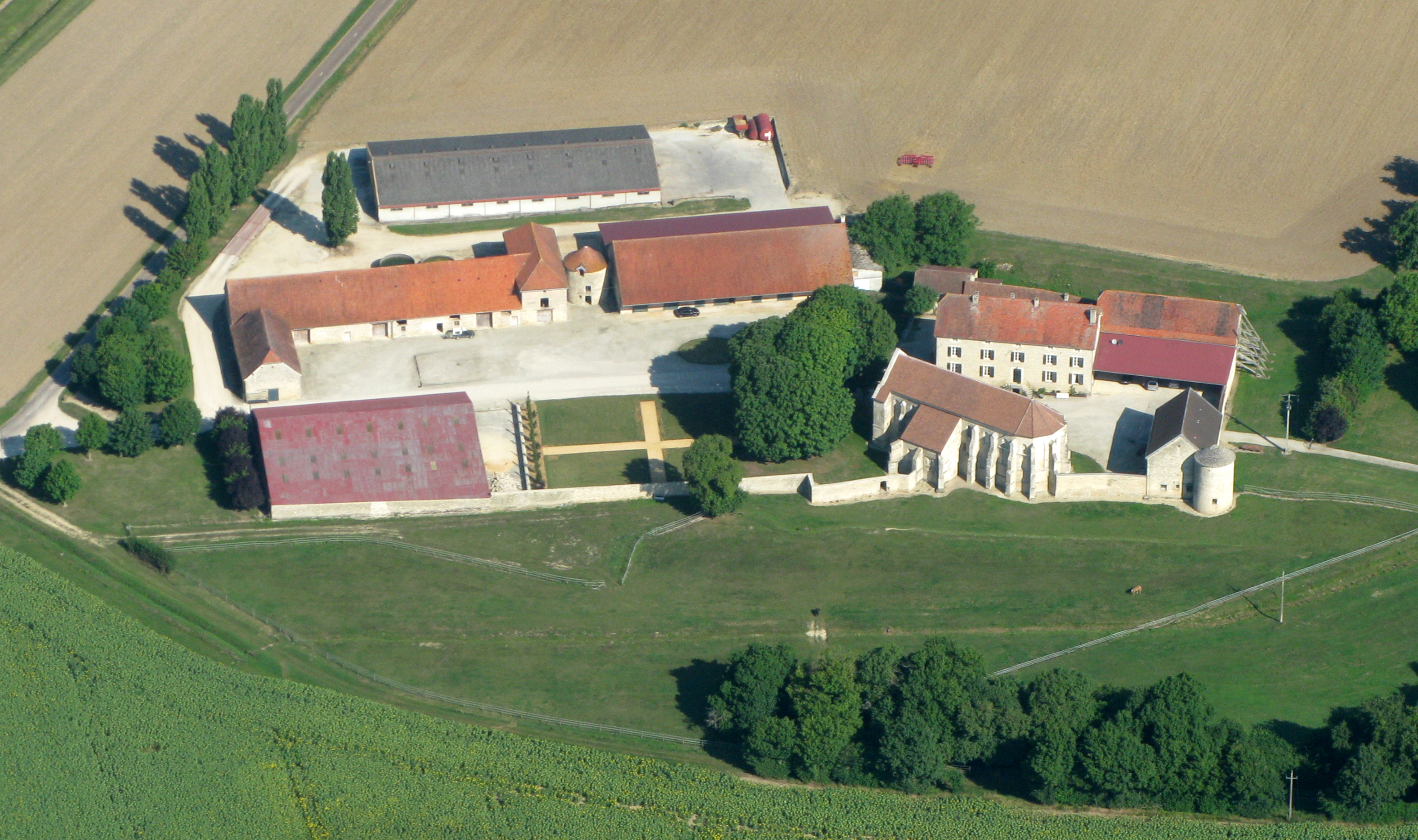 photo aérienne de la commanderie d'Epailly